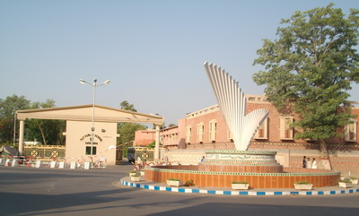 Photo taken at main entry of Sargodha Public school